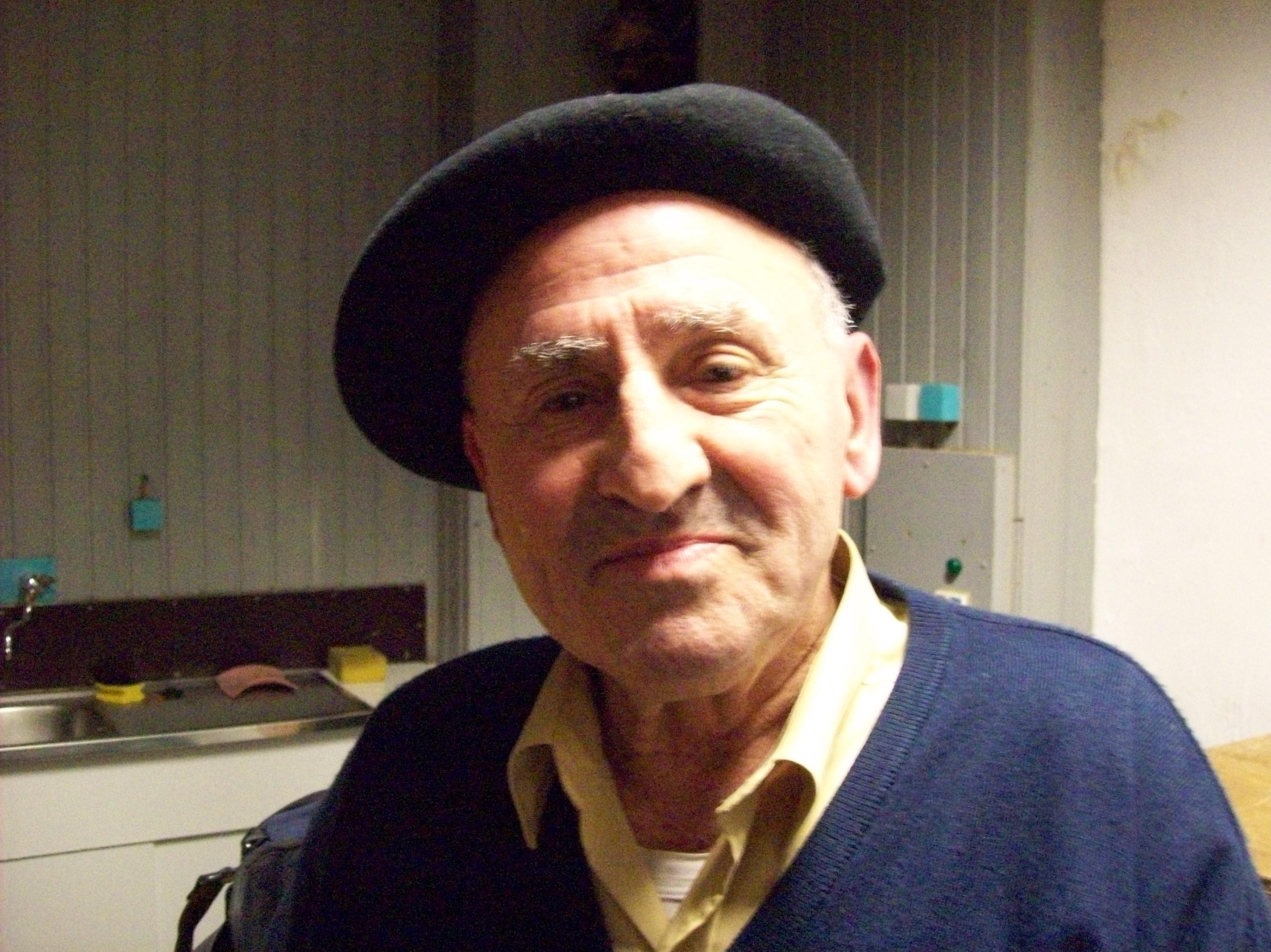 Lucio Urtubia in Berlin 2010